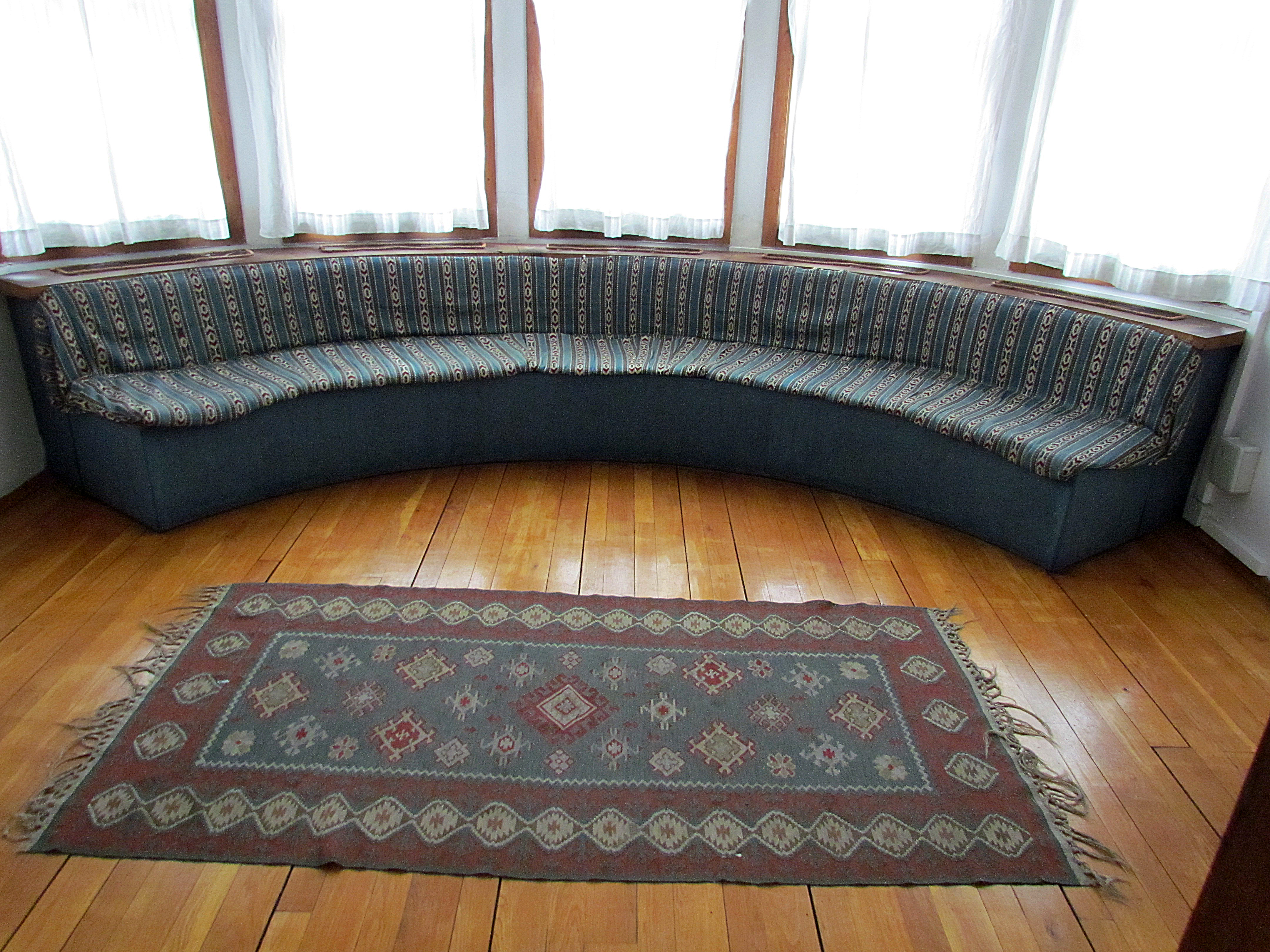 Small Divanhana, Princess Ljubica's Residence